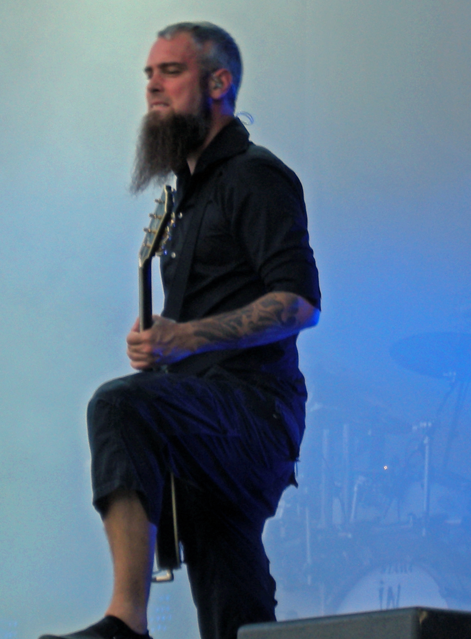 Björn Gelotte with In Flames at Sonisphere Festival, Stockholm, Sweden 2011